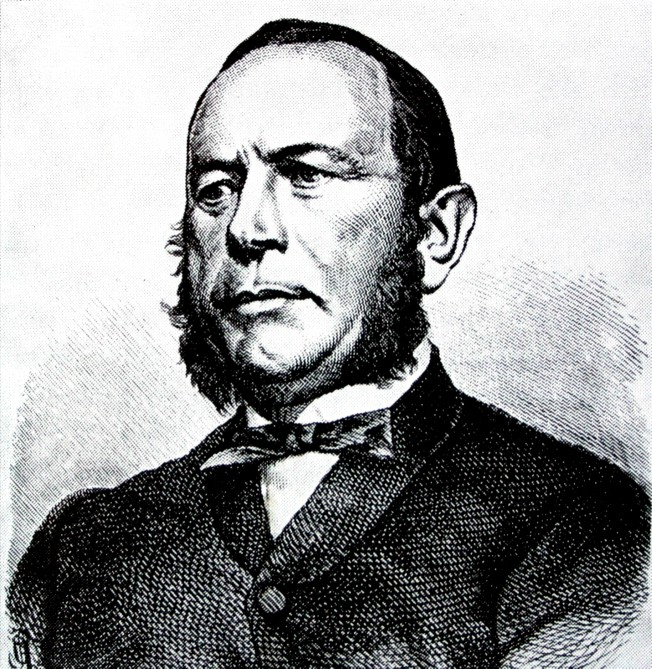 Engraving of German missionary Karl Wilhelm Posselt (1815-1885) of the Berlin Missionary Society